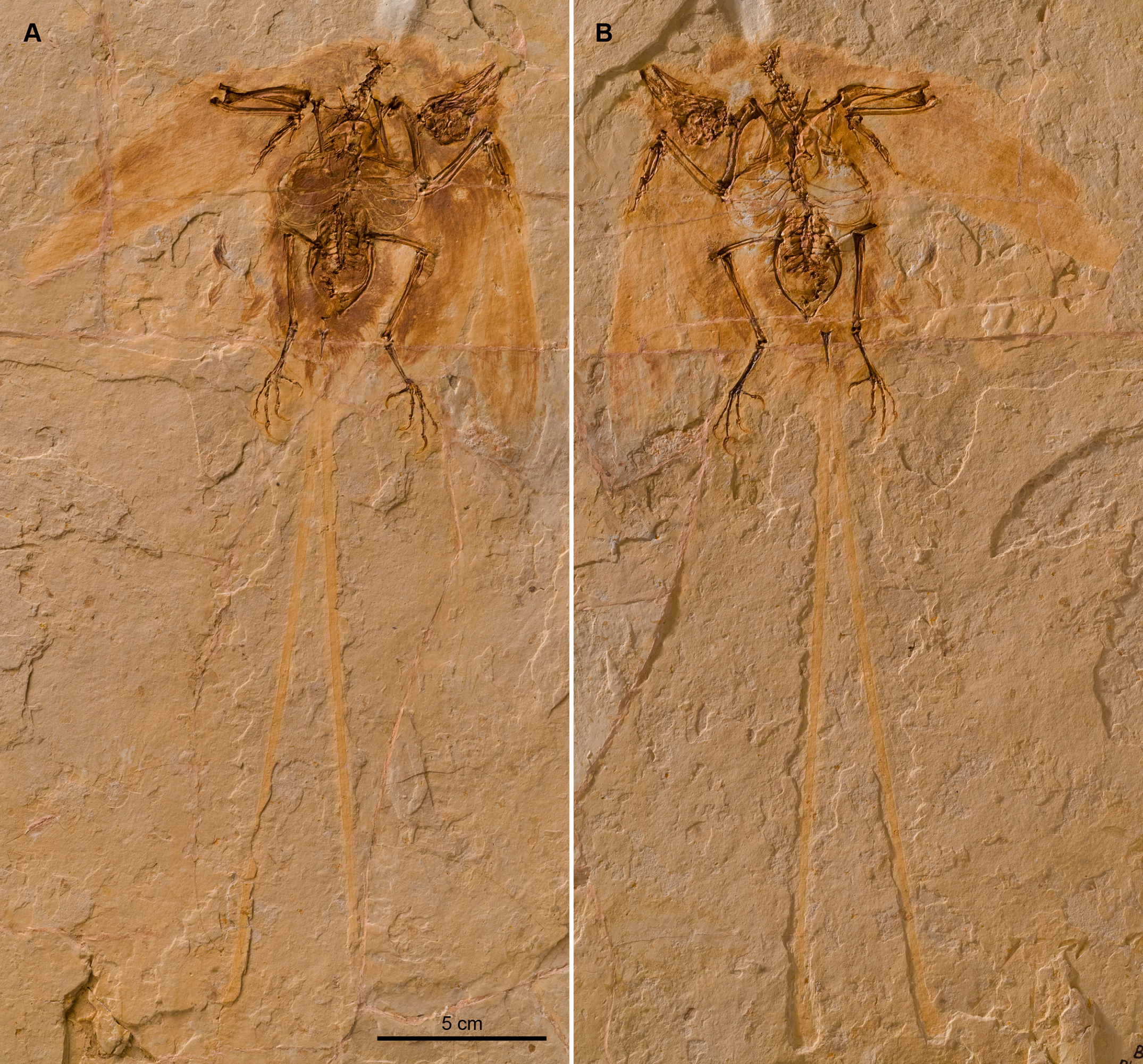 Slab (BMNHC-PH 919a) (A) and counterslab (BMNHC-PH 919b) (B) of Junornis houi.